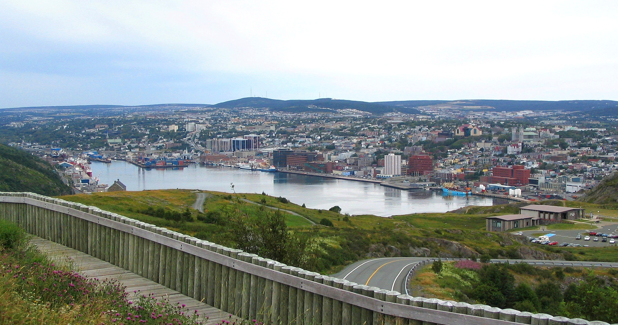 View of St. John's, Newfoundland, from Signal Hill